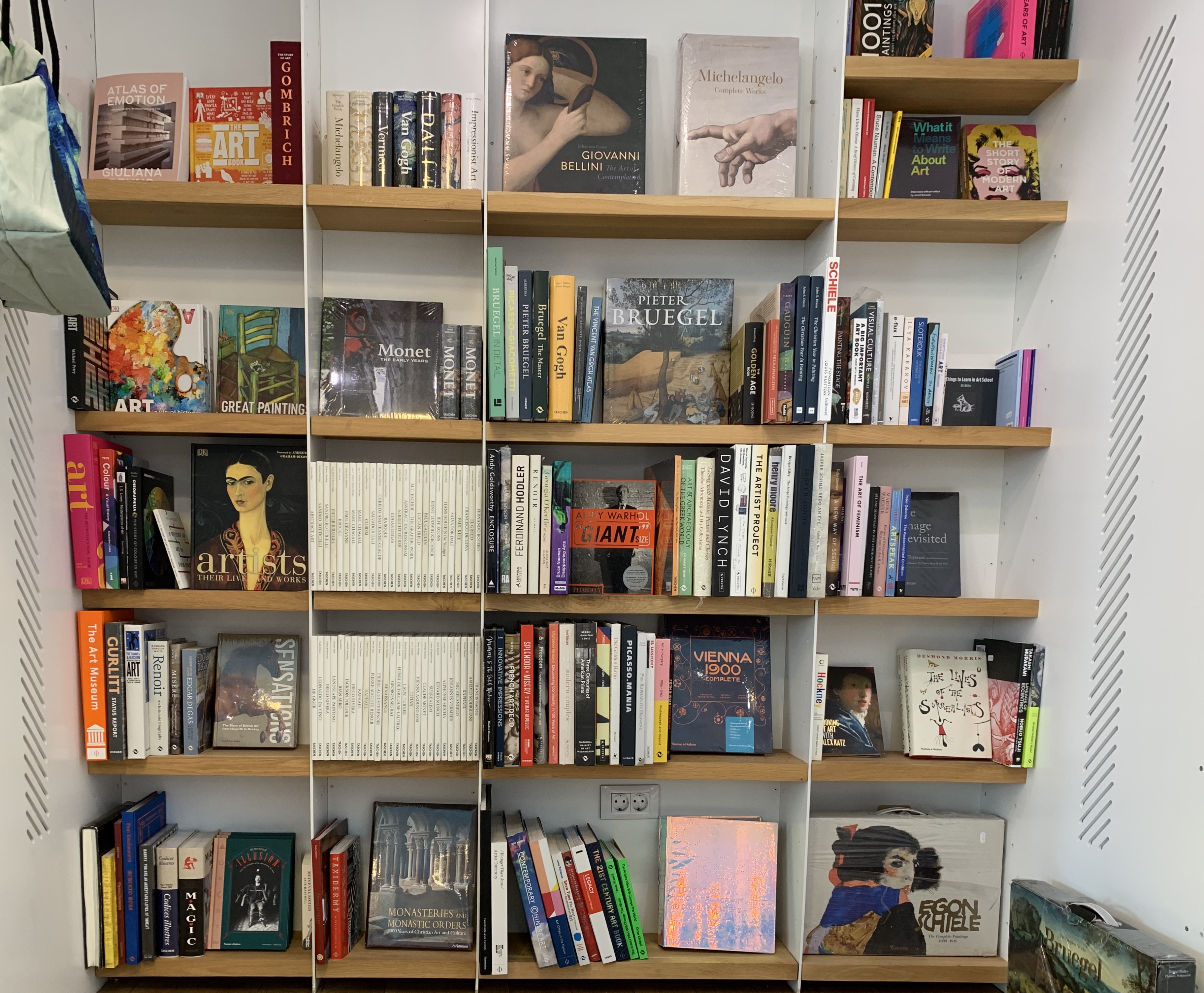 55, Strada Lipscani, Bucharest (Romania)